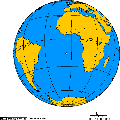 Orthographic projection above St Helena